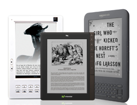 Photographic composition of Granmata Papyre, Movistar Ebook bq and Amazon Kindle.